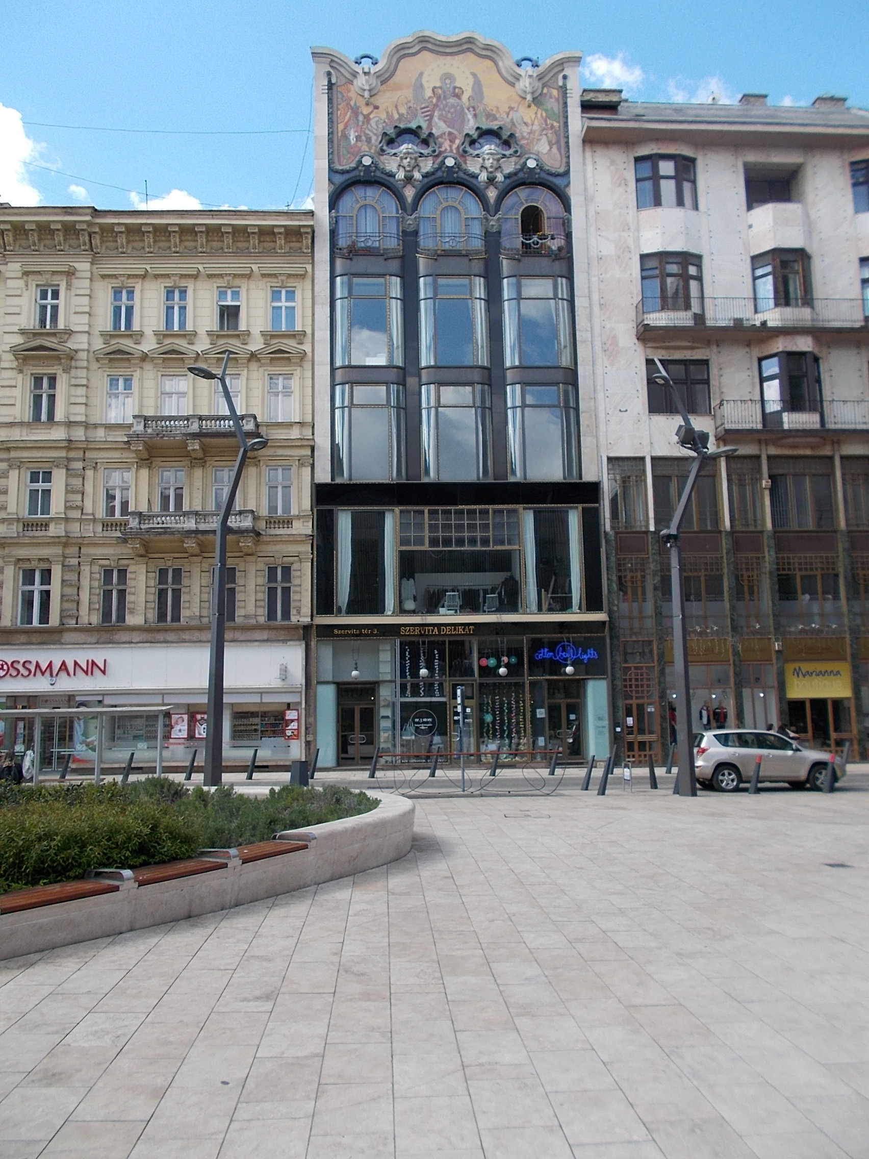 Török bank building. - 3 Szervita Square, Inner City neighbourhood, Belváros-Lipótváros district, Budapest, Hungary.